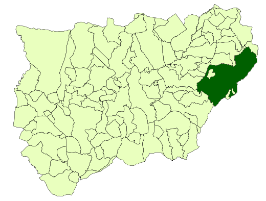 Situation of the municipality of Santiago-Pontones (Jaén, Spain).